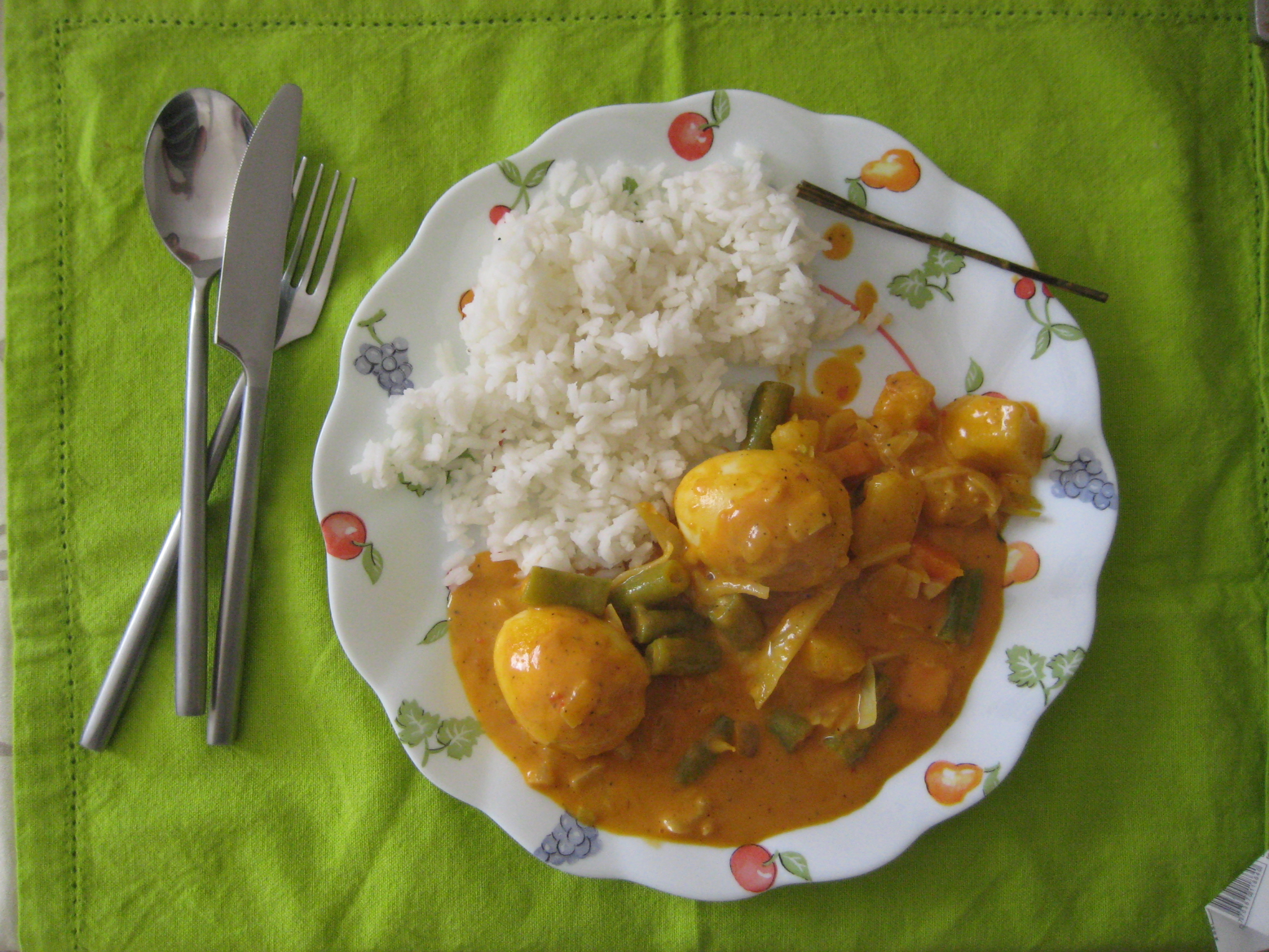 Curry with eggs